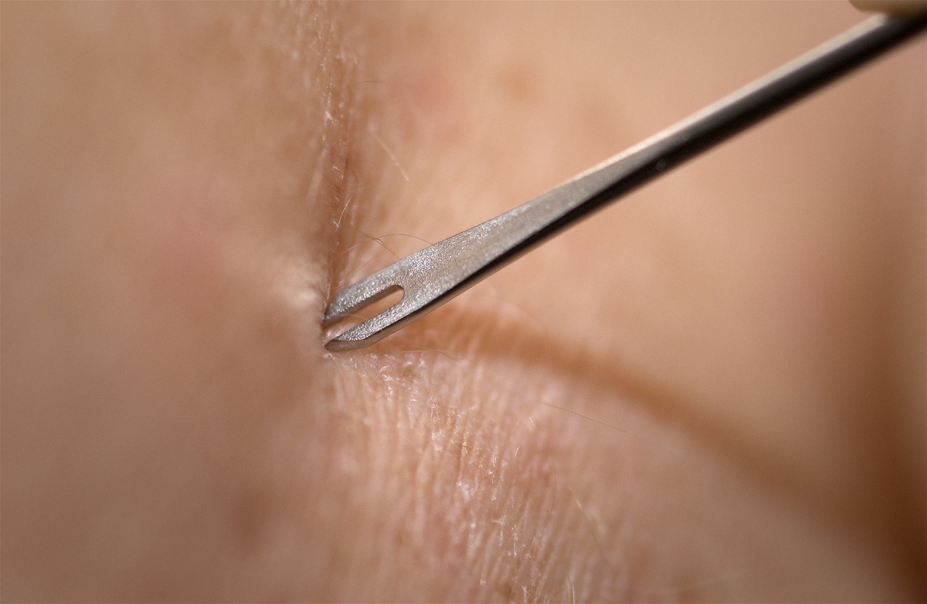 CDC Clinician demonstrates the use of a bifurcated needle during the 2002 Smallpox Vaccinator Workshop. In December 2002, CDC Clinicians trained state licensed vaccine administers how to deliver smallpox vaccine safely and efficiently. Once training was completed, they provided additional smallpox vaccine administration training in their home states.